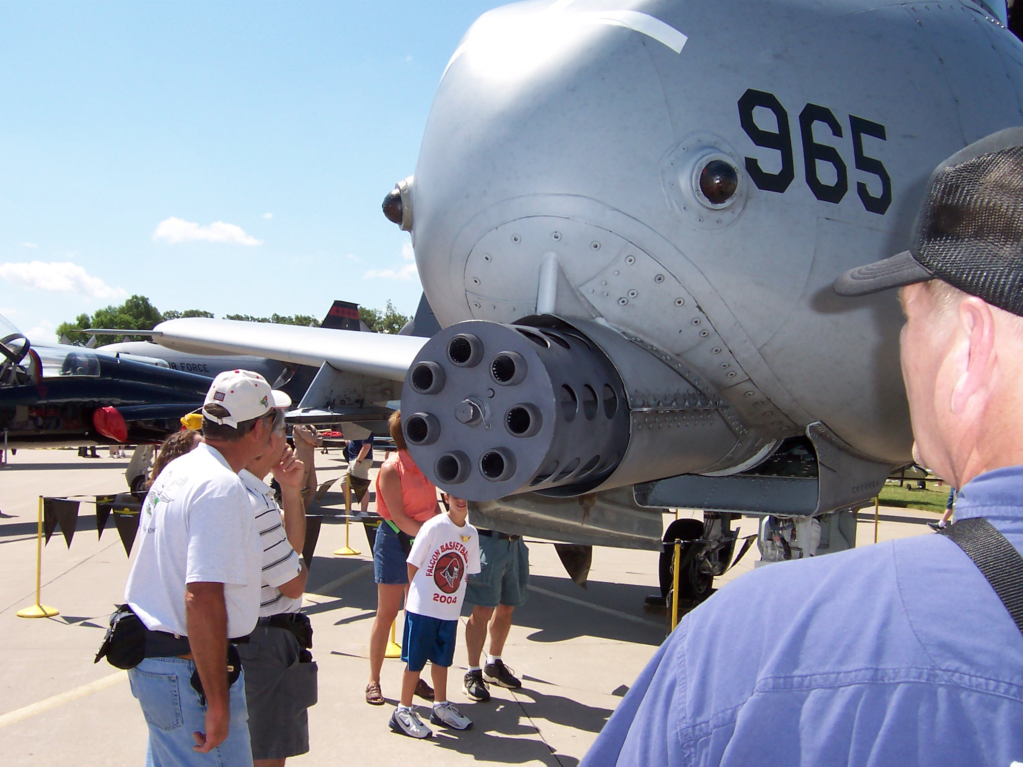 General Electric's GAU-8 Avenger Gatling Gun on an A-10 Thunderbolt.